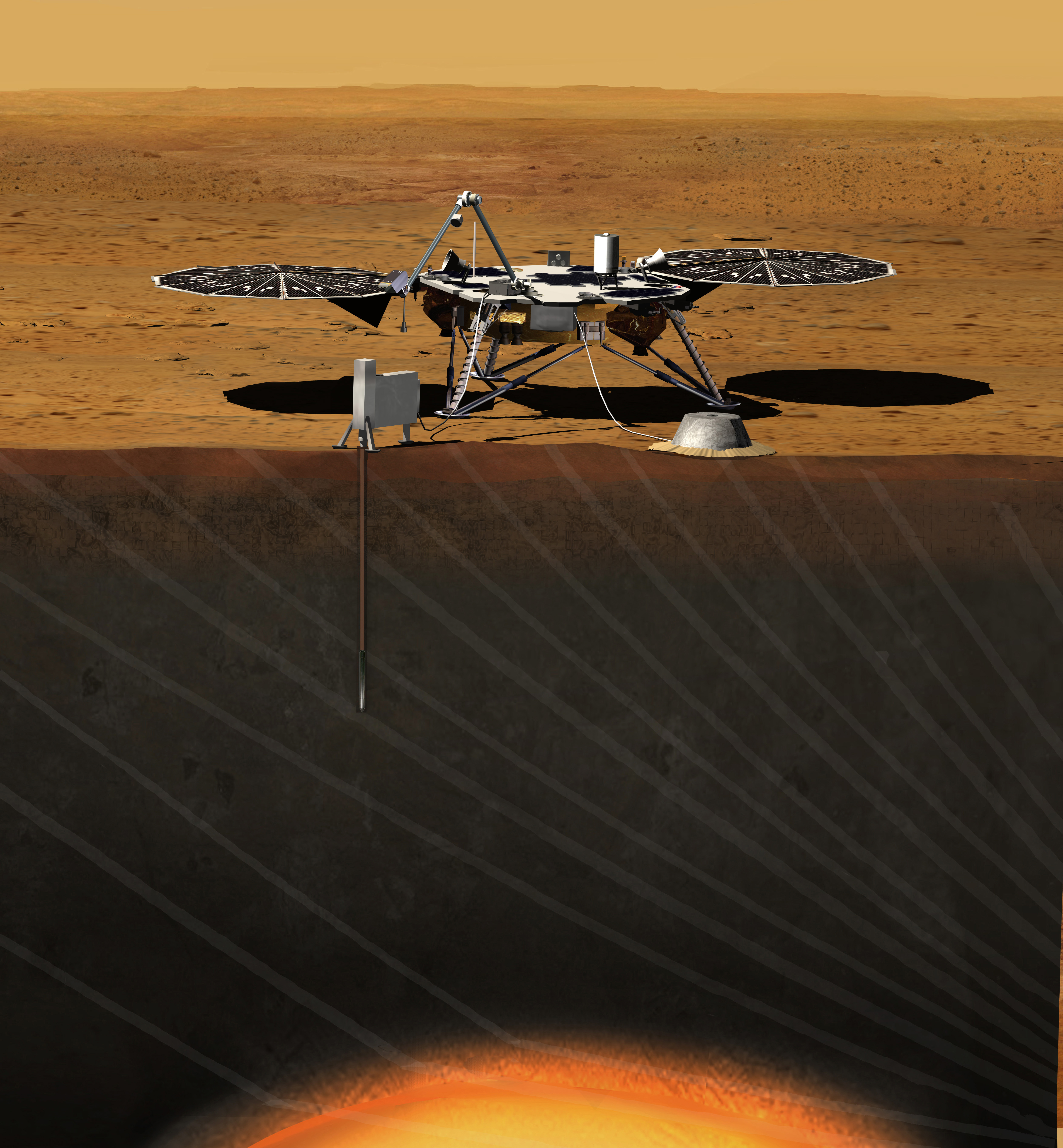 Artist rendition of the InSight (Interior exploration using Seismic Investigations, Geodesy and Heat Transport) Lander. InSight is based on the proven Phoenix Mars spacecraft and lander design with state-of-the-art avionics from the Mars Reconnaissance Orbiter and Gravity Recovery and Interior Laboratory missions.